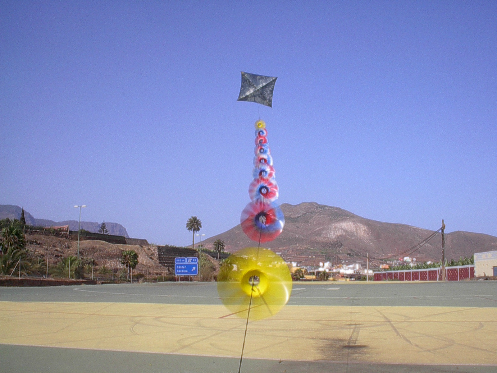 Multirotor wind-generator supported by a kite. Gran Canaria Island.